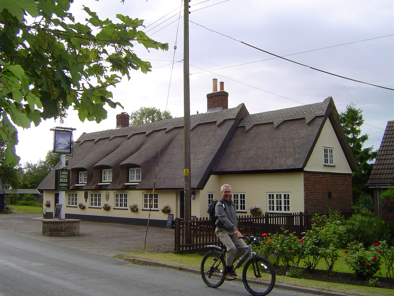 The Swan public house in The Street (that is the road name), Lawshall, Suffolk, England.